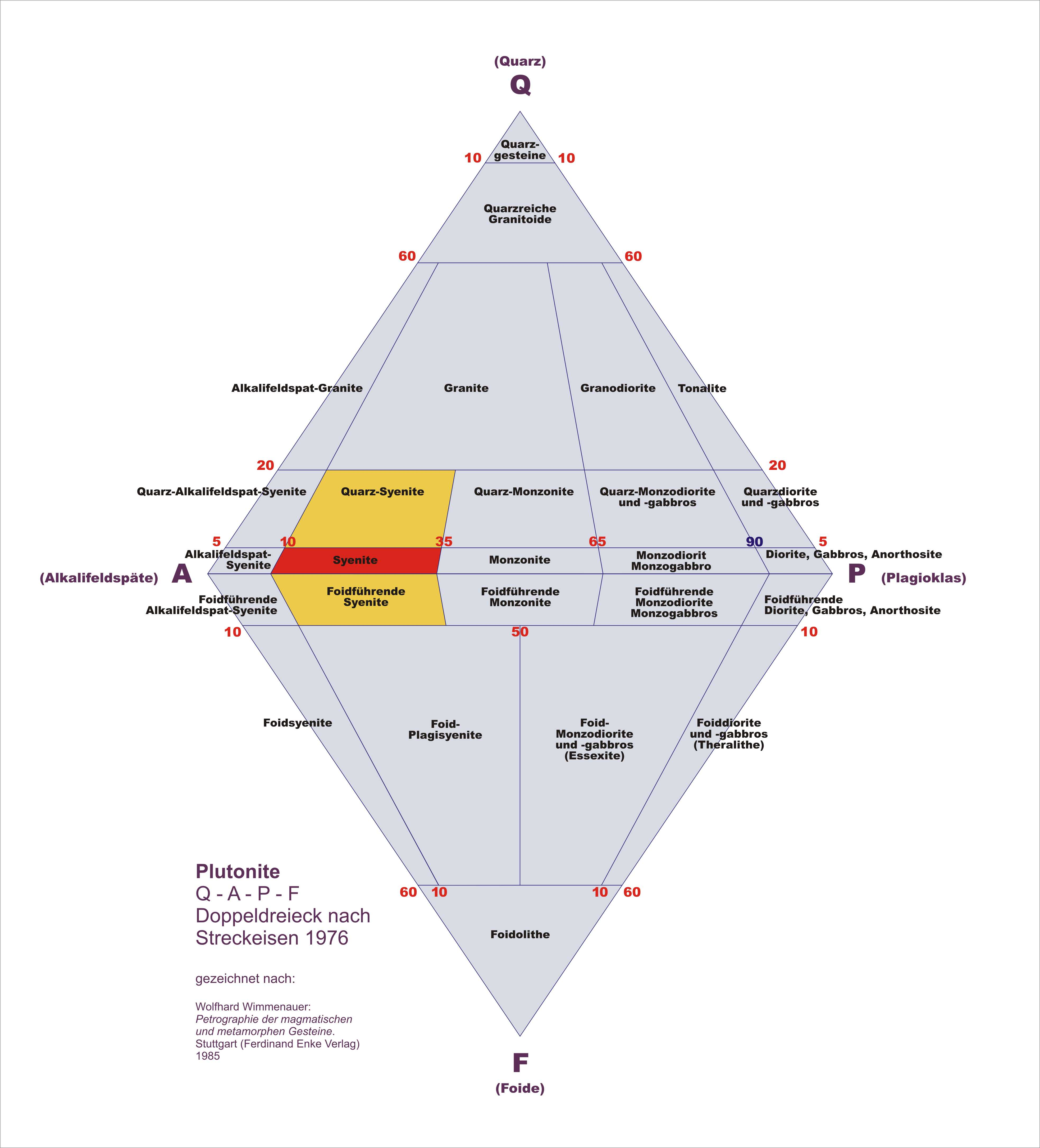 QAPF diagram (Syenites